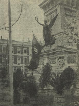 The Portuguese Republican flag is hoisted for the first time on the Monument to the Restorers, in Lisbon, 1 December 1910.